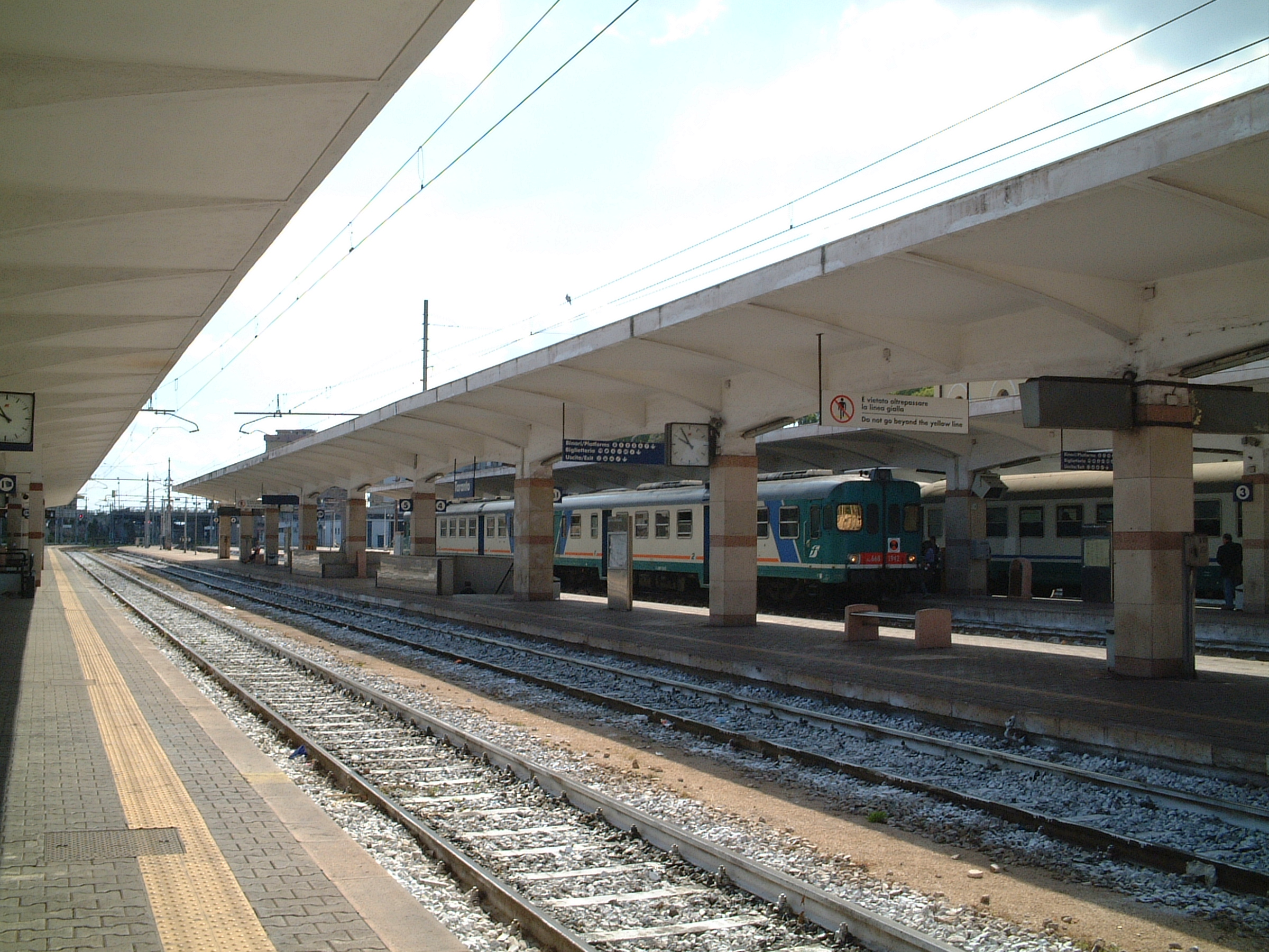 Railway Station. Photo taken in Taranto Puglia Italy.